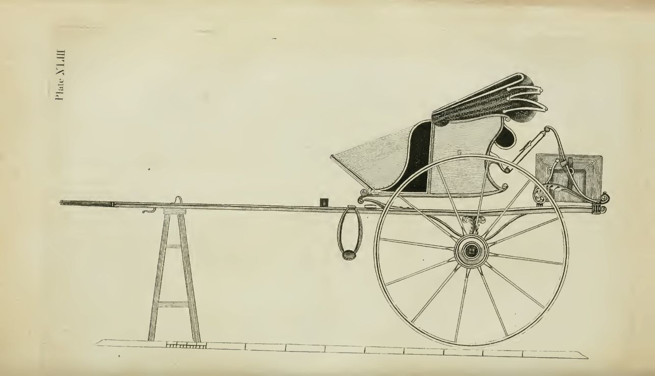 A chair back gig Carriage: a pair of hind spring-blocks; a small platform budget behind; straked wheels, common axletrees and boxes Body: a chair back with sham doors and sword case lined with second cloth trimmed with 2½ inch lace, a sliding seat-box and a carpet. A round fixed head and a knee-boot of small size, a small platform budget. The plating with silver a 4-8th moulding round the sham doors, the head and knee-boot, a pair of sword case frames The painting of the body and carriage picked out one colour, the arms on the back and the crests on the two side panels. The Braces common Gig from "A Treatise on Carriages"